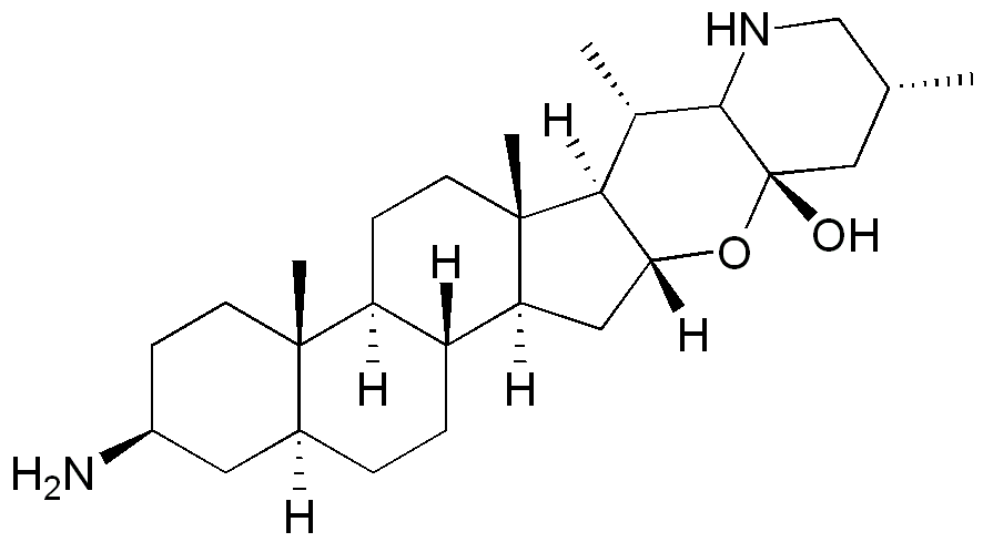 Structure of Solanocapsine